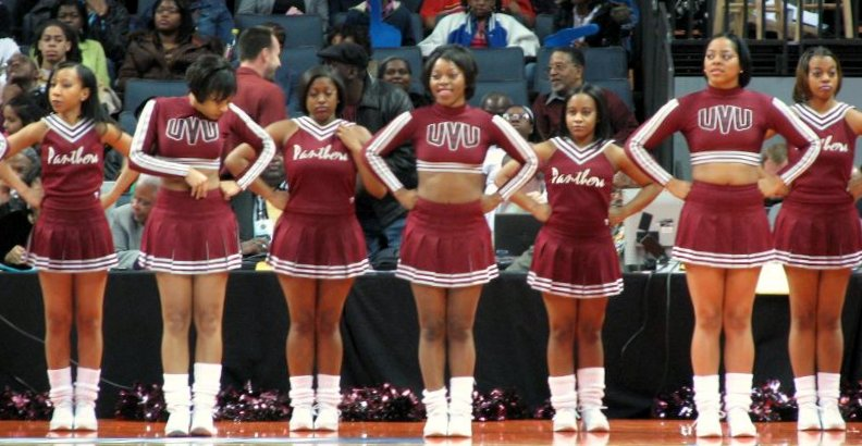 Cheerleaders from Virginia Union University at the Central Intercollegiate Athletic Association Tournament